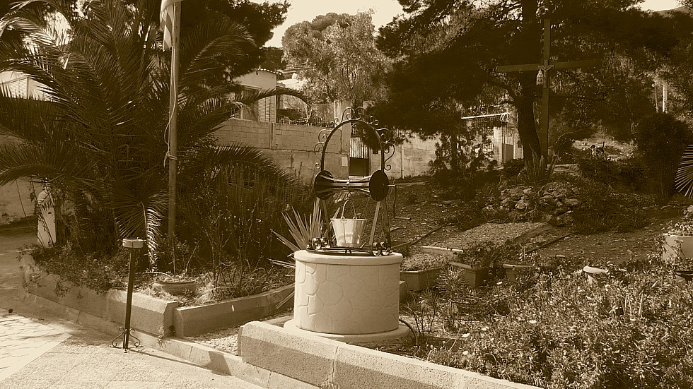 The picture depicts the Sweet Water Well.